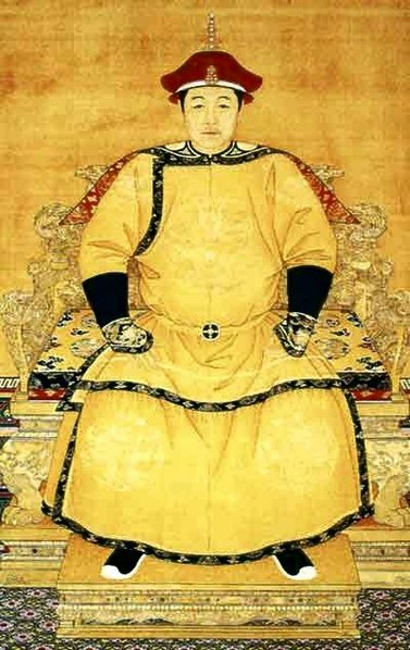 Official court portrait of Qing Emperor Shunzhi